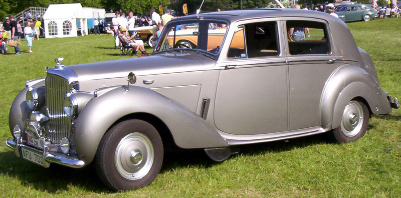 Bentley Mark IV 4-Door Saloon 1952